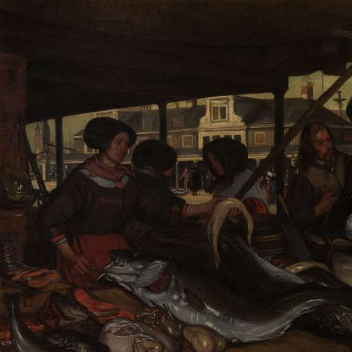 The New Fish Market of Amsterdam, by Emanuel de Witte